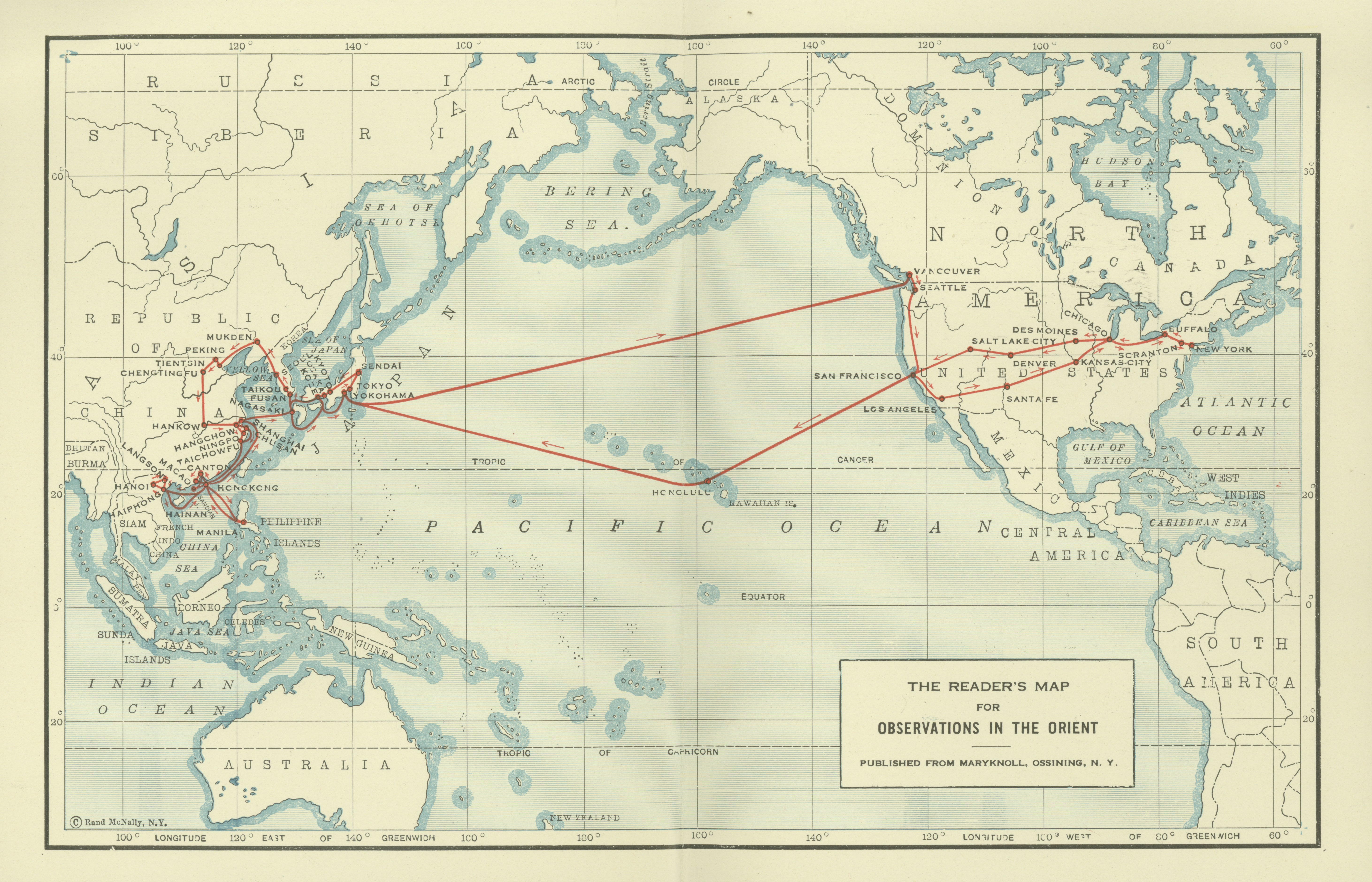 Readers map in the book Observations in the Orient: The Account of a Journey to Catholic Mission Fields in Japan, Korea, Manchuria, China, Indo-China, and the Philippines by James Anthony Walsh (1919)